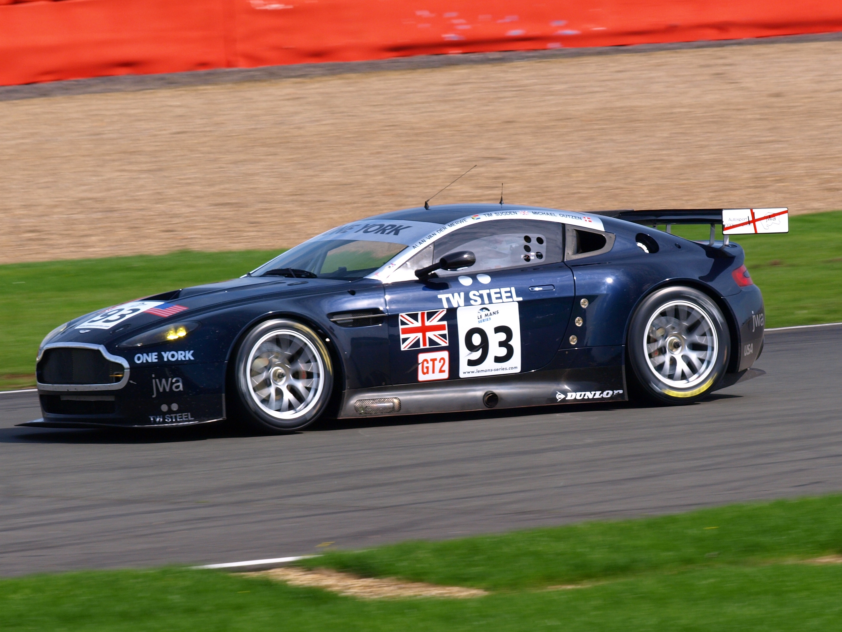 James Watt Automotive's Aston Martin V8 Vantage GT2 at the 2008 1000km of Silverstone.